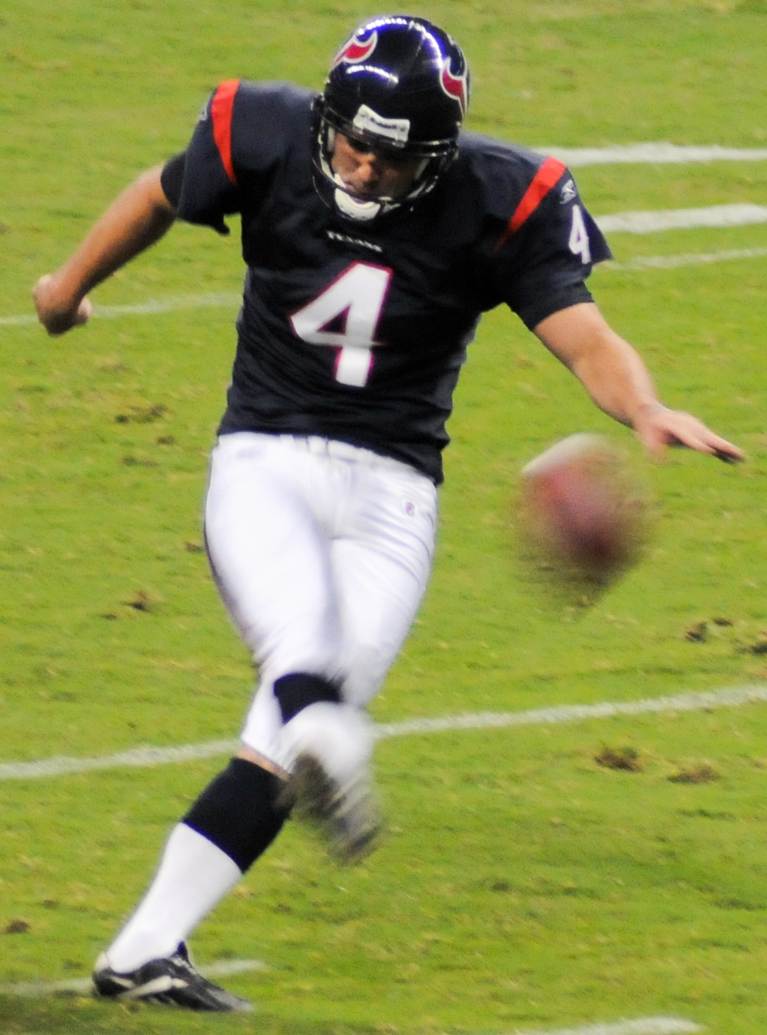 Neil Rackers of the Texans, attempting a field goal